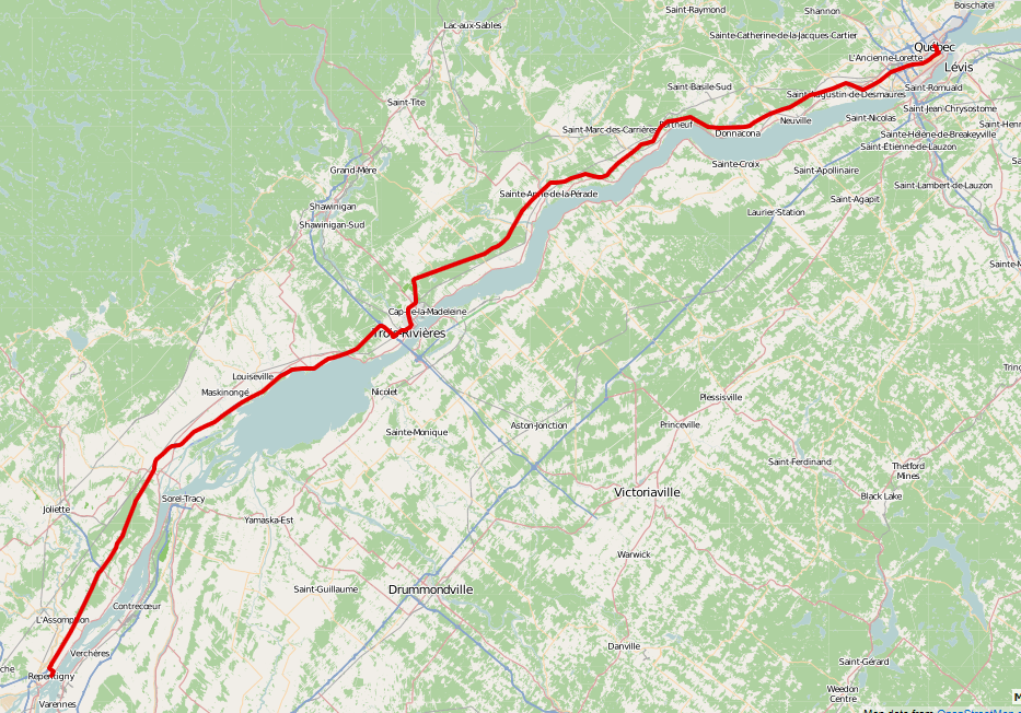 Map showing the route of the Chemin du Roy, from Repentigny towards Quebec City. The road extends almost 280 kilometres (170 mi). Actually a map following Route 138, which closely follows the Chemin du Roy for most of its route (not an actual Chemin du Roy trace, but almost nearly so). Created using Open Street Map data from to create a.gpx file. Then uploaded it to and created the map above with an Open Street Map overlay. All the data was generated using OSM data, allowing re-use.